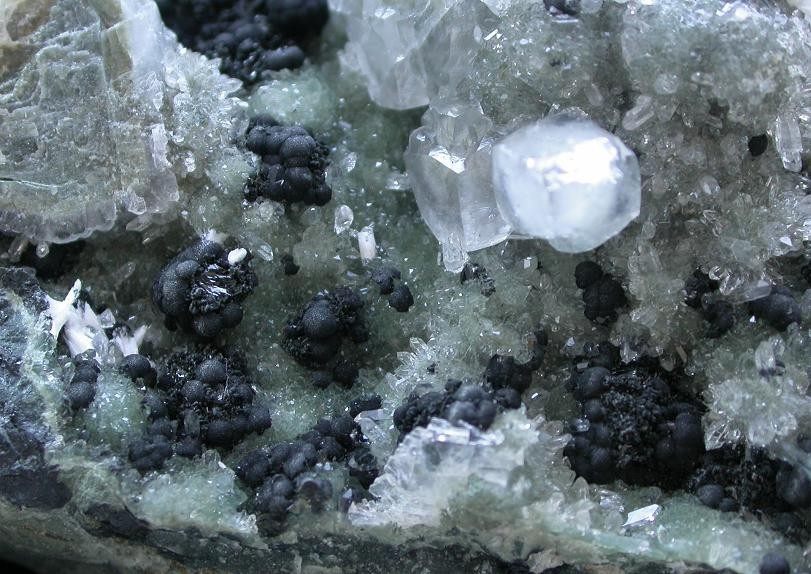 Julgoldite-(Fe2+) Locality: Jalgaon District, Maharashtra, India (Locality at ) Black spheres of Julgoldite-(Fe2+). Field of view 4 cm. Specimen and photo Leon Hupperichs.